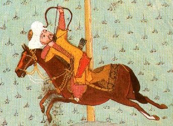 Sultan Murad II at archery practice. Hazine 1523, folio 138a (Detail)